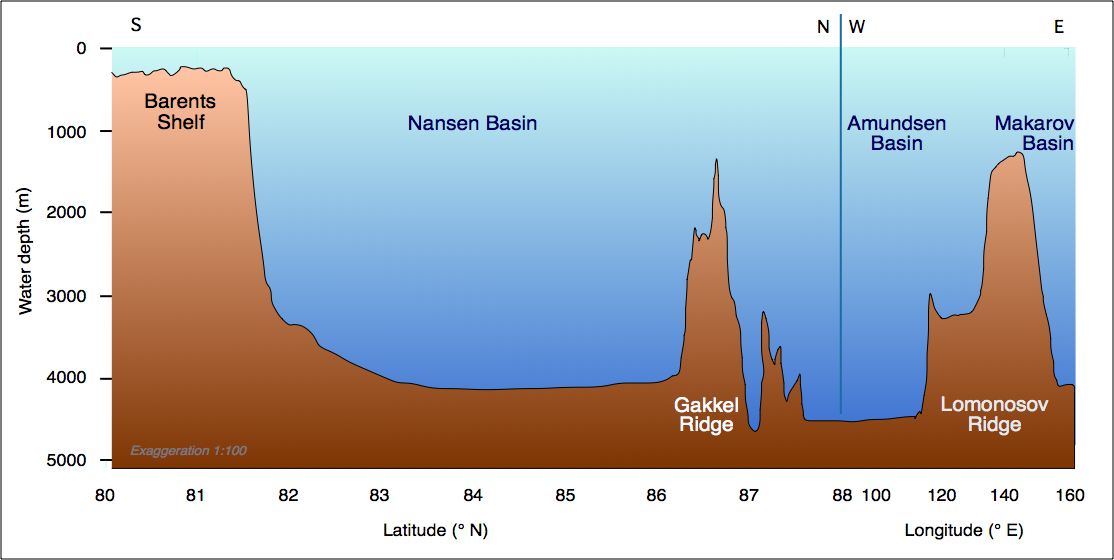 Depth profile through the Arctic Ocean. Gakkel Ridge is an active spreading zone with a central valley in the middle; Lomonosov Ridge is supposed to be a remanent of the Siberian Shelf.